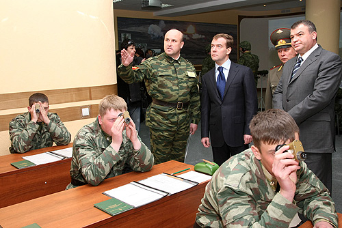 KOSTROMA. At the Military Academy for radiological, chemical, and biological defense, named after Marshal of the Soviet Union Semyon Timoshenko.